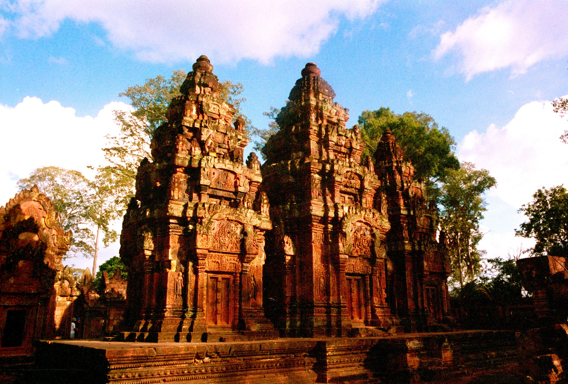 Banteay Srei 'towers' — 10th century Khmer architecture.